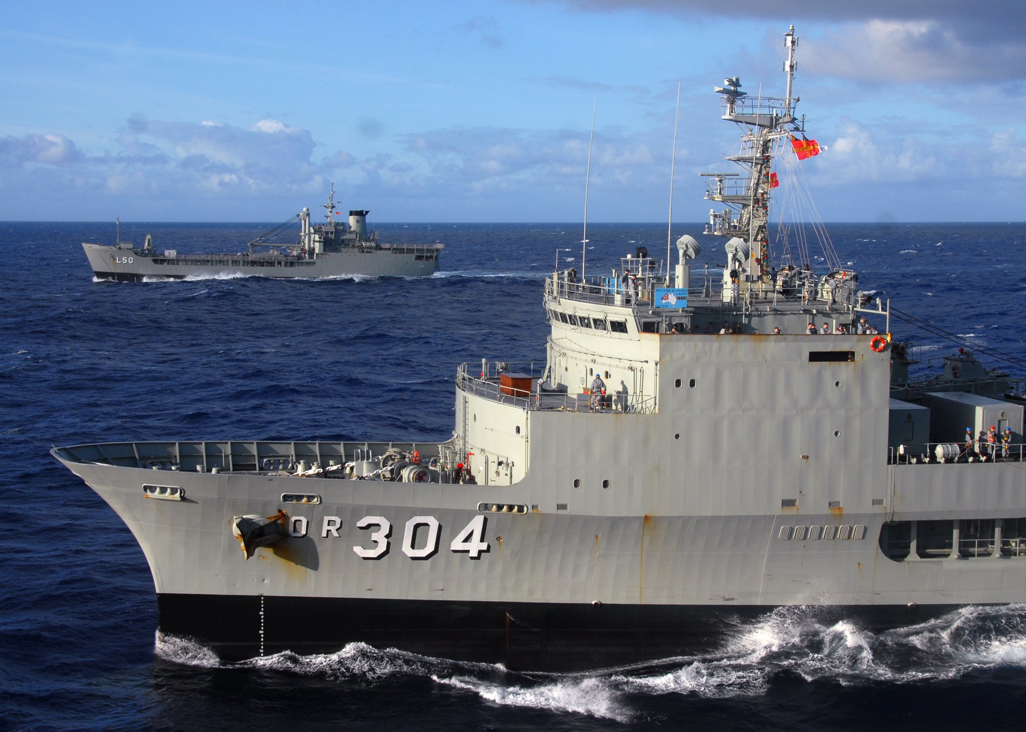 080723-N-5822P-076 PACIFIC OCEAN (July 23, 2008) The Commonwealth of Australia underway replenishment tanker HMAS Success (OR 304) and the heavy lift ship HMAS Tobruk (L 50) steam in formation with the U.S. Navy amphibious assault ship USS Bonhomme Richard (LHD 6), not pictured, during an underway replenishment. The ships are participating in Rim of the Pacific (RIMPAC) 2008. RIMPAC is the world's largest multinational exercise and is scheduled biennially by the U.S. Pacific Fleet. Participants include the United States, Australia, Canada, Chile, Japan, the Netherlands, Peru, Republic of Korea, Singapore, and the United Kingdom. (U.S. Navy photo by Mass Communication Specialist 2nd Class Mark Patterson II/Released)